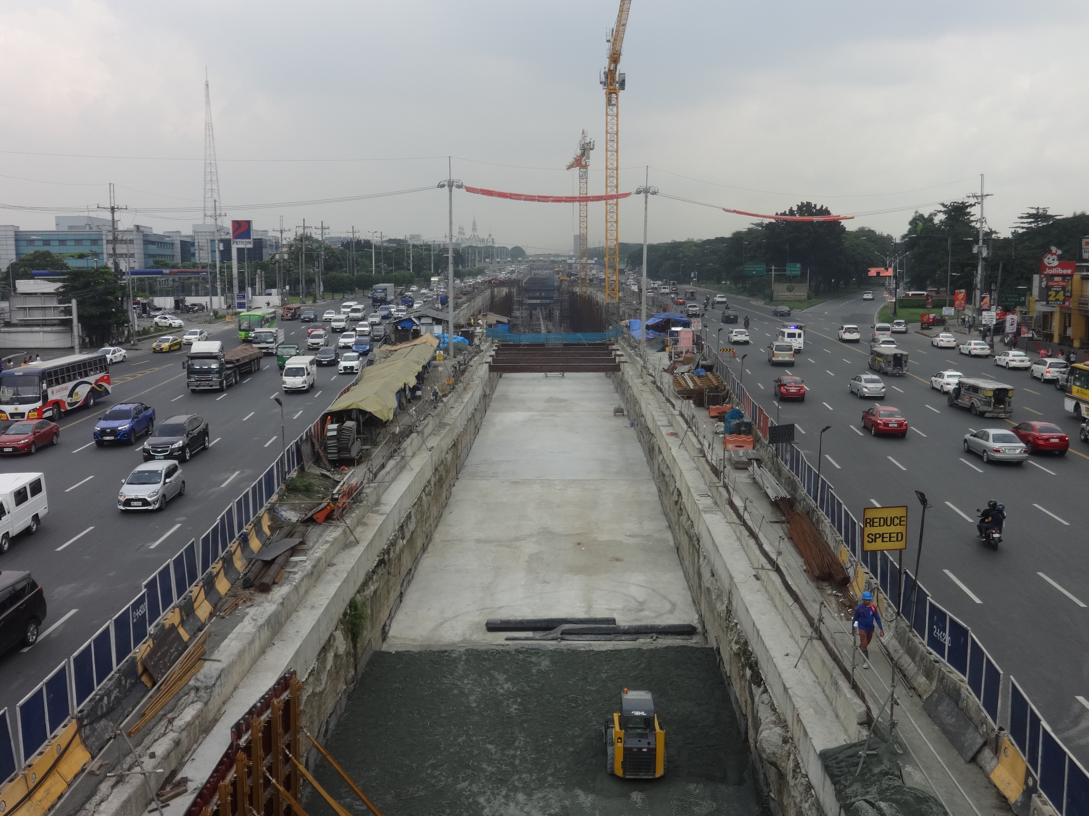 Commonwealth Avenue and construction of MRT Line 7-Universiity Avenue Station in Quezon City